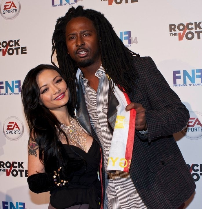 Matchstik And Tila Tequila On The Red Carpet At The 14th Grammy Friends 'N' Family Party At Paramount Studios In Los Angeles, CA